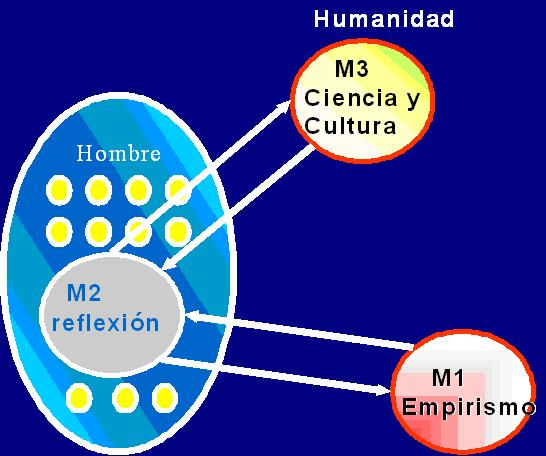 Interacción entre mundos